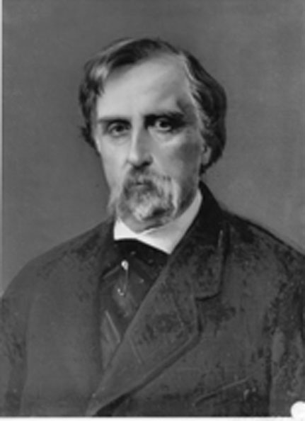 Filippo Doria Pamphili (1813-1876)